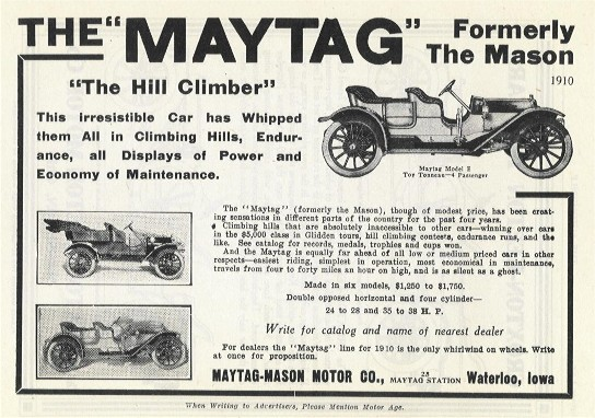 The Maytag was the successor of the Mason from Iowa. Pictured is a 35 HP Model E 4 cylinder toy tonnneau introduced for the 1911 model year. Engines were designed by the Duesenberg brothers. Price was $1750, which put it in the middle class.